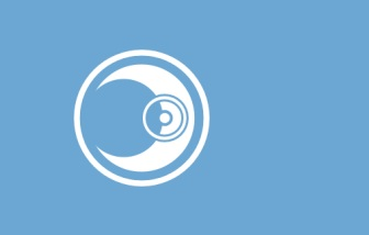 Flag of Meiwa Gunma